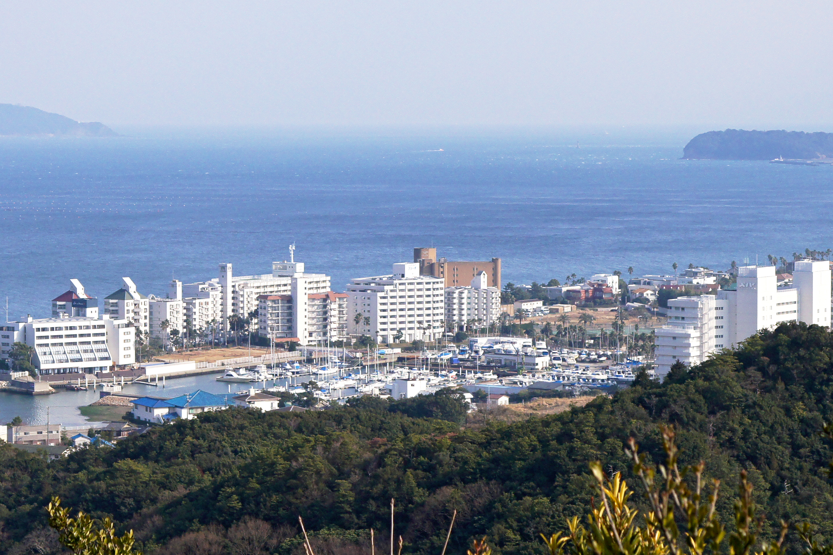 Sumoto Onsen in Sumoto, Hyogo prefecture, Japan.